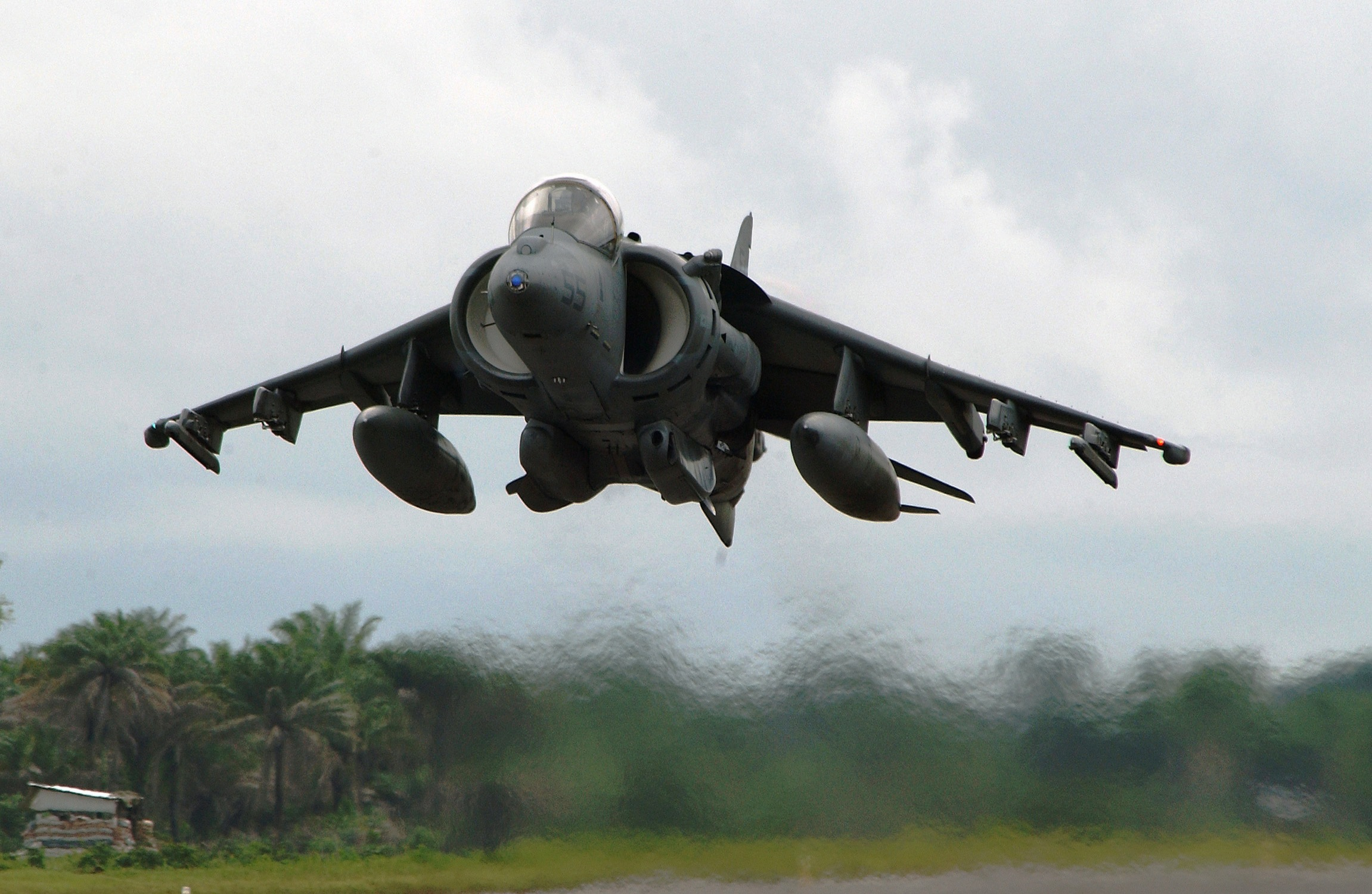 A US Marine Corp (USMC) AV-8B Harrier aircraft, deployed with the 398th Air Expeditionary Group (AEG), takes off at Freetown International Airport, Sierra Leone. The 398th AEG is currently in Sierra Leone to provide personnel recovery and emergency evacuation capability for the Humanitarian Assistance Survey Teams (HAST) and the Fleet Anti-terrorism Security Teams (FAST) in Liberia, during Joint Task Force (JTF) Liberia.